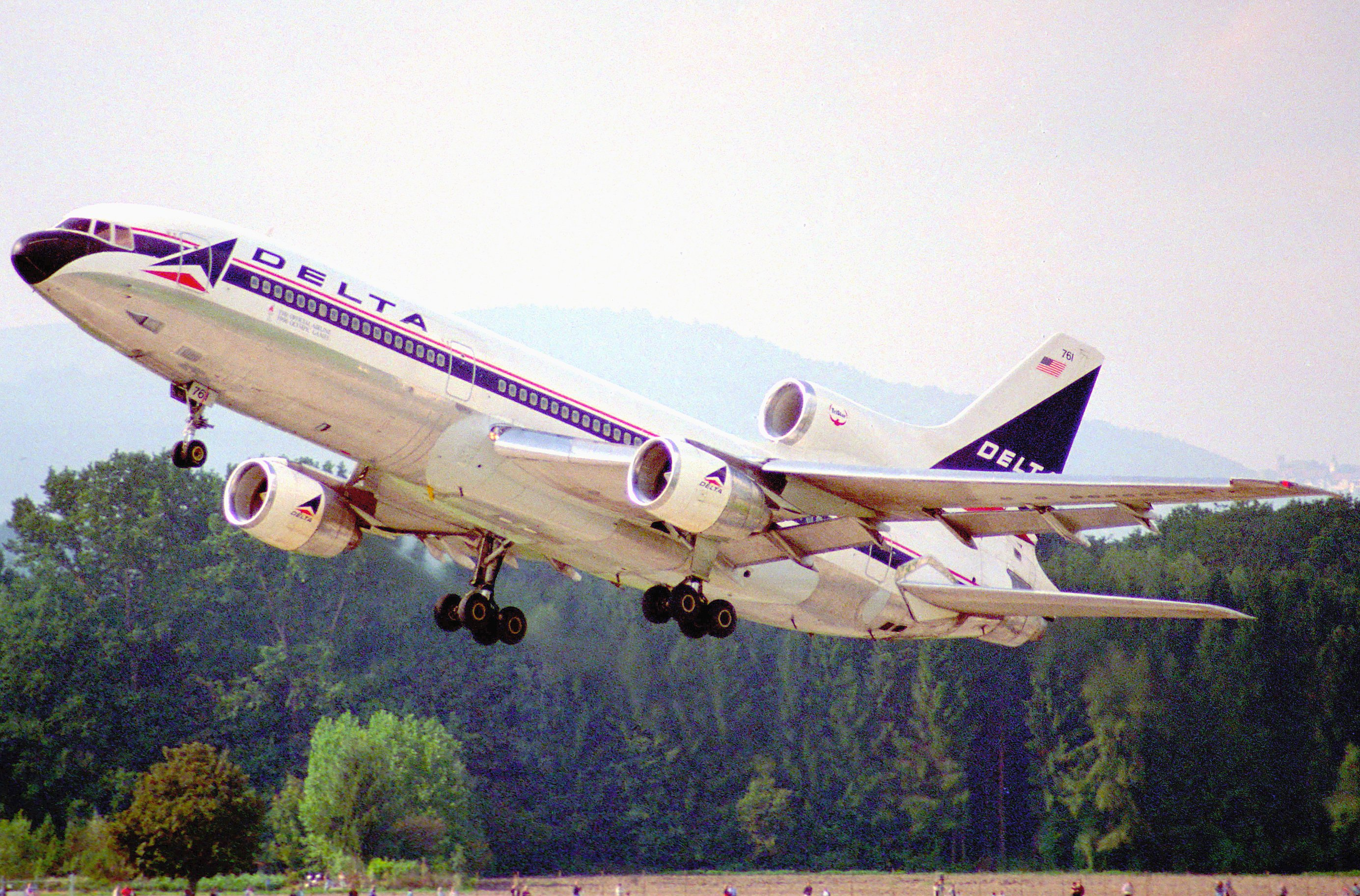 A Delta Air Lines Lockheed L1011 TriStar 500 aircraft (N761DA) at Zürich International Airport in September 1995.